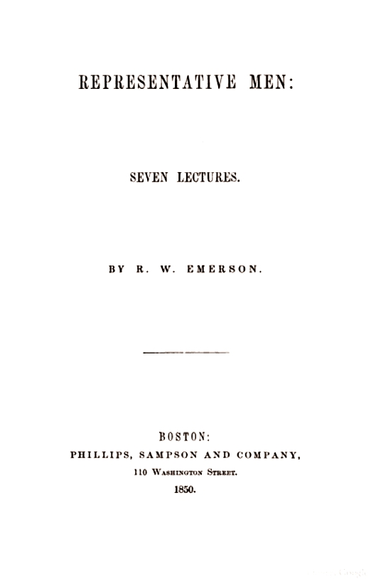 Title page for Representative Men: Seven Lectures by Ralph Waldo Emerson. Published by Phillips, Sampson and Company, 1850.